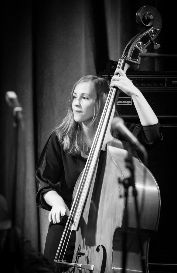 Ellen Andrea Wang with The Oslo Jazz Festival Orchestra 2016 at the stage of Nasjonal Jazzscene Victoria. The concert was part of the Oslo Jazz Festival in Norway and took place on 19. August 2016. Lineup:Mathias Eick (trumpet)Trygve Seim (saxophone)Jon Balke (piano)Ellen Andrea Wang (double bass)Gard Nilssen (drums)